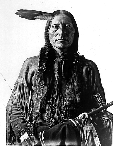 Arapaho Scabby Bull, 1906, by De Lancey W. Gill Source: [1], which got it from the Library of Congress